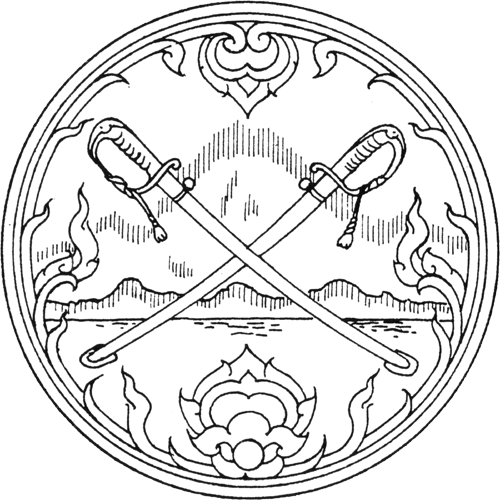 Provincial seal of Krabi province.